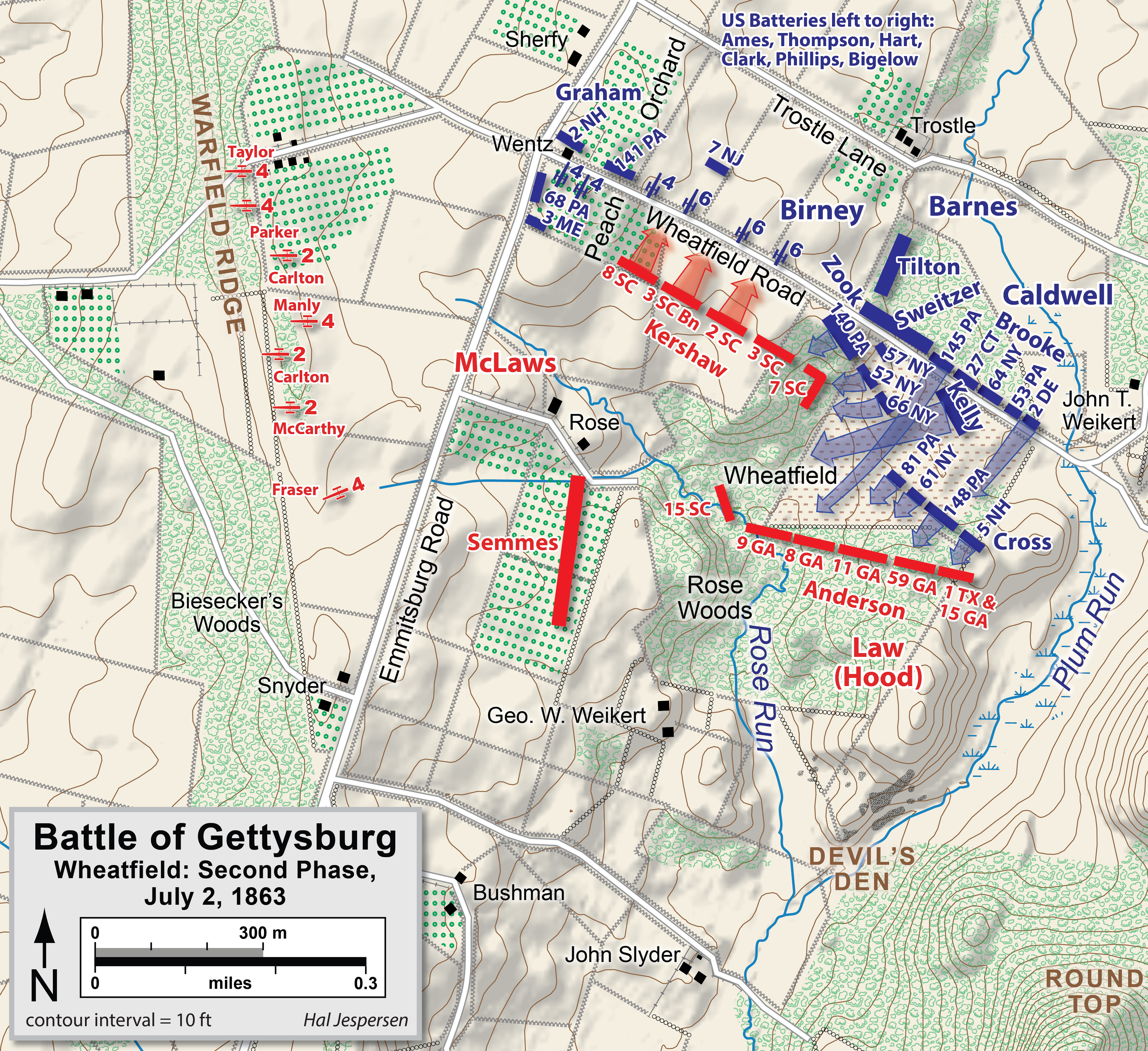 Map of Wheatfield actions in the Battle of Gettysburg, Second Day, of the American Civil War. Updated unit positions and made topographical background consistent with many other Wikipedia Gettysburg maps. Drawn in Adobe Illustrator CS5 by Hal Jespersen. Graphic source file is available at